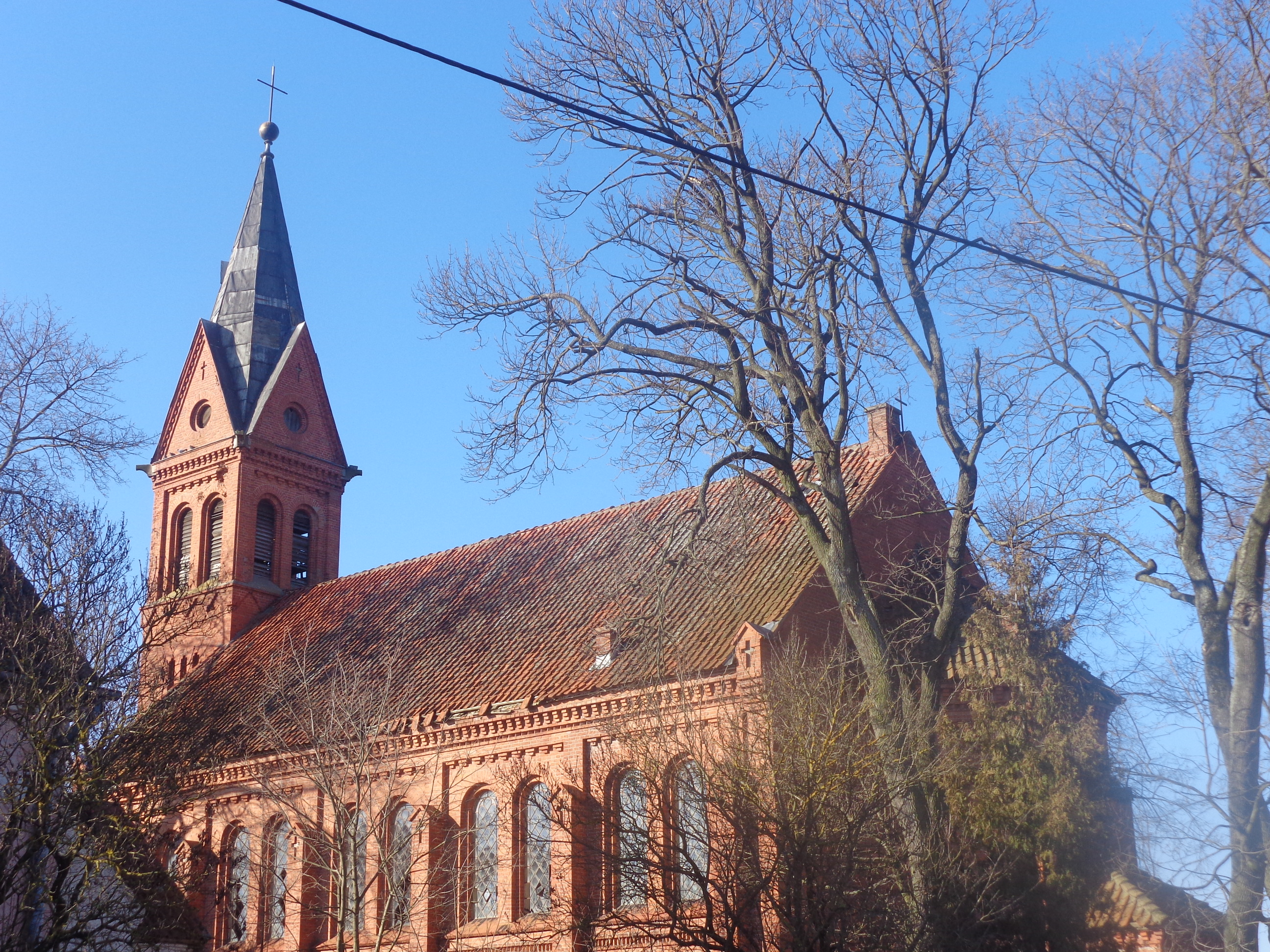 Image of Church in Warpuny